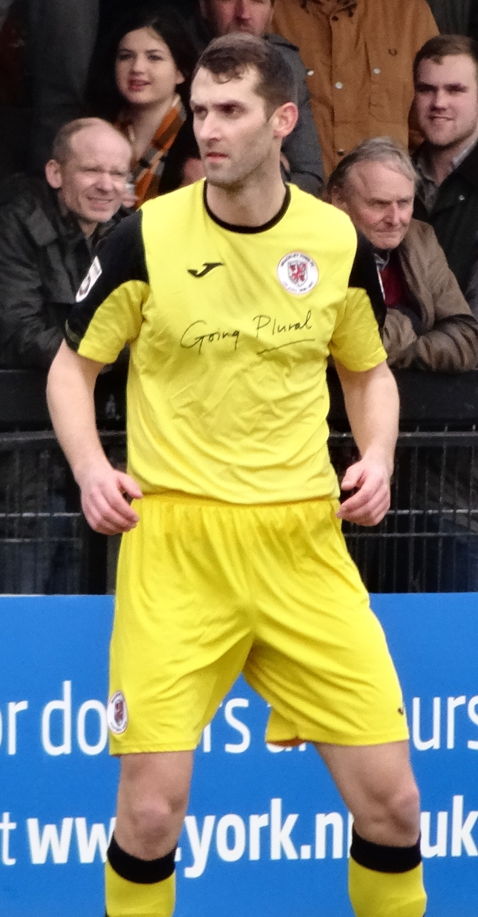 Luke Graham playing for Brackley Town against York City at Bootham Crescent, York on 25 February 2017